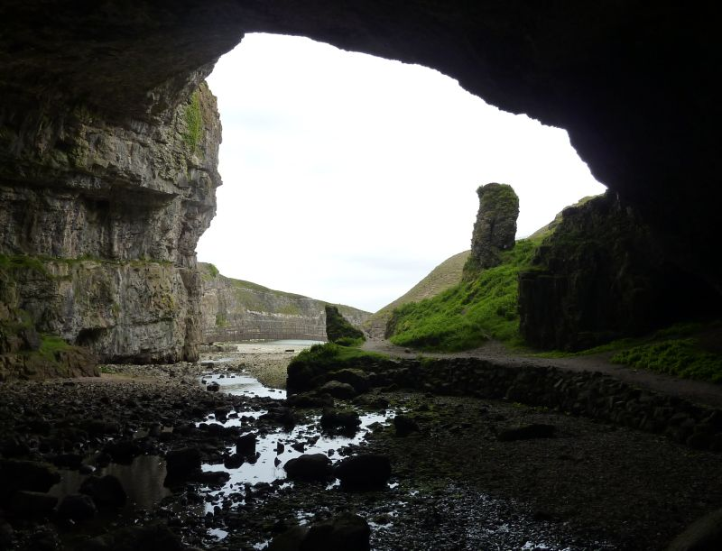 Smoo Cave, northern Scotland